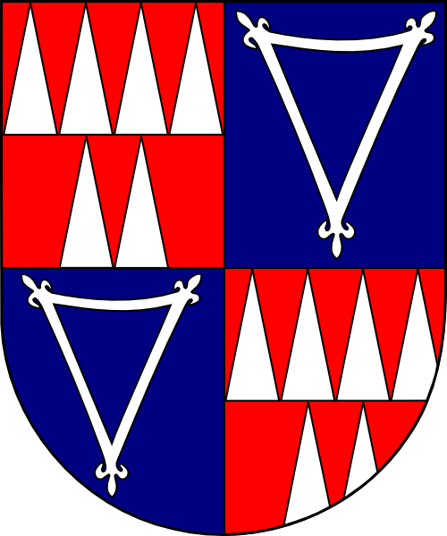 Coat of arms (shield only) of Jan Dubravius, bishop of Olomouc, Czech Republic (1541 - 1553).